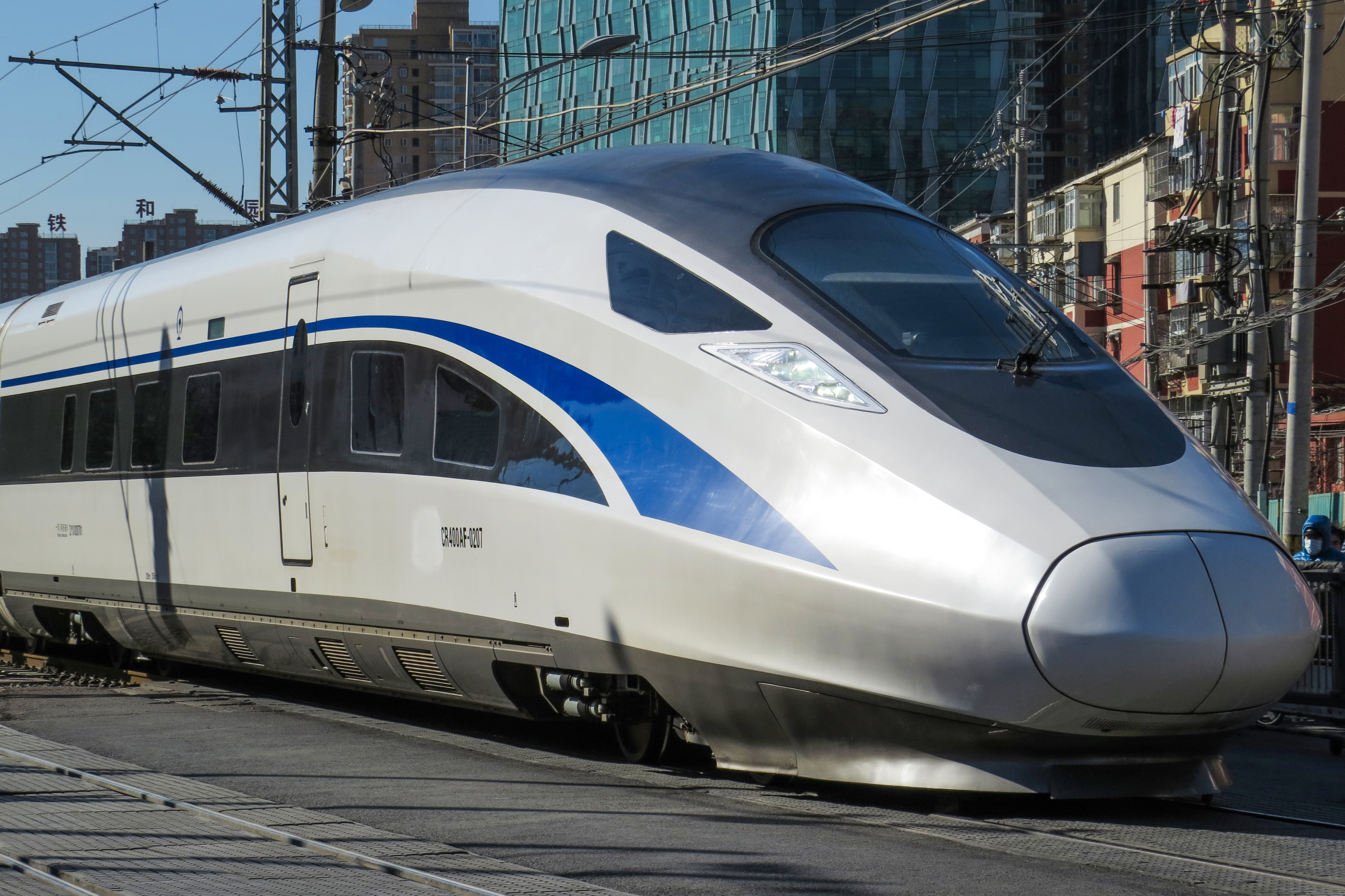 0G66 from the depot.